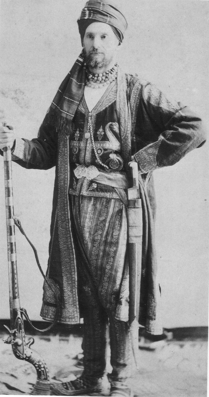 Federico Peliti (29 June 1844 – 28 October 1914) - pioneer photographer, confectioner, baker.